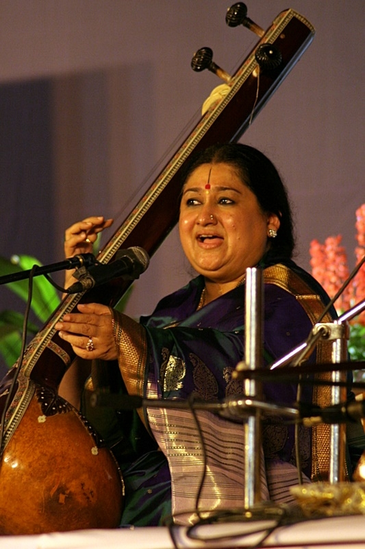 Shubha Mudgal is a well-known Indian singer of Hindustani classical music, Khayal, Thumri, Dadra, and popular Indian Pop music. She has been awarded the 1996 National Film Award for Best Non-Feature Film Music Direction for 'Amrit Beej' the 1998 Gold Plaque Award for Special Achievement in Music, at the 34th Chicago International Film Festival[2], for her music in the film Dance of the Wind (1997), and the Padma Shri in 2000